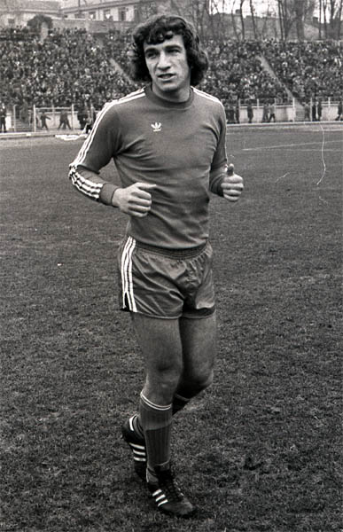 Ionel Augustin playing for Dinamo